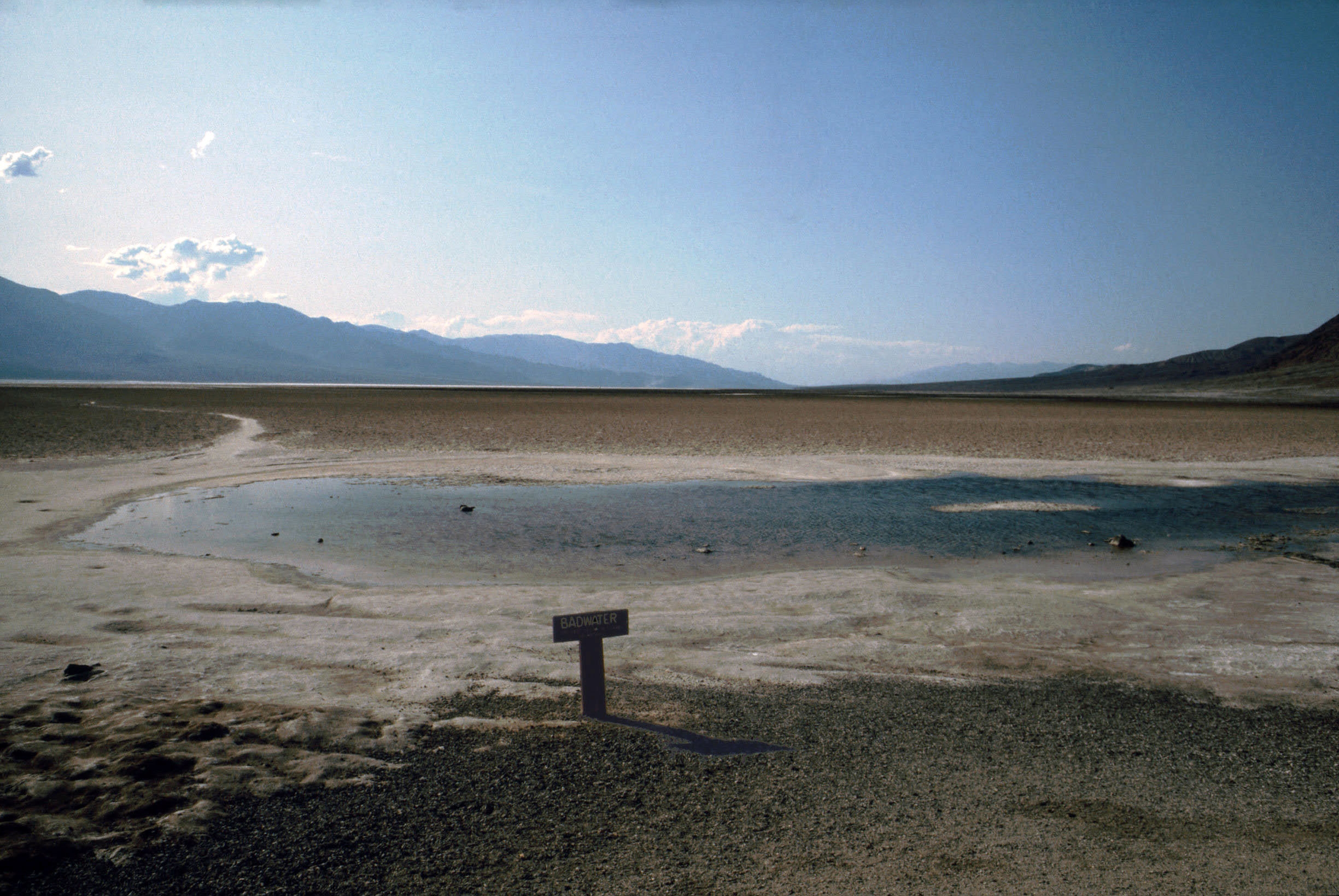 Death Valley,Badwater,lowest point in the USA